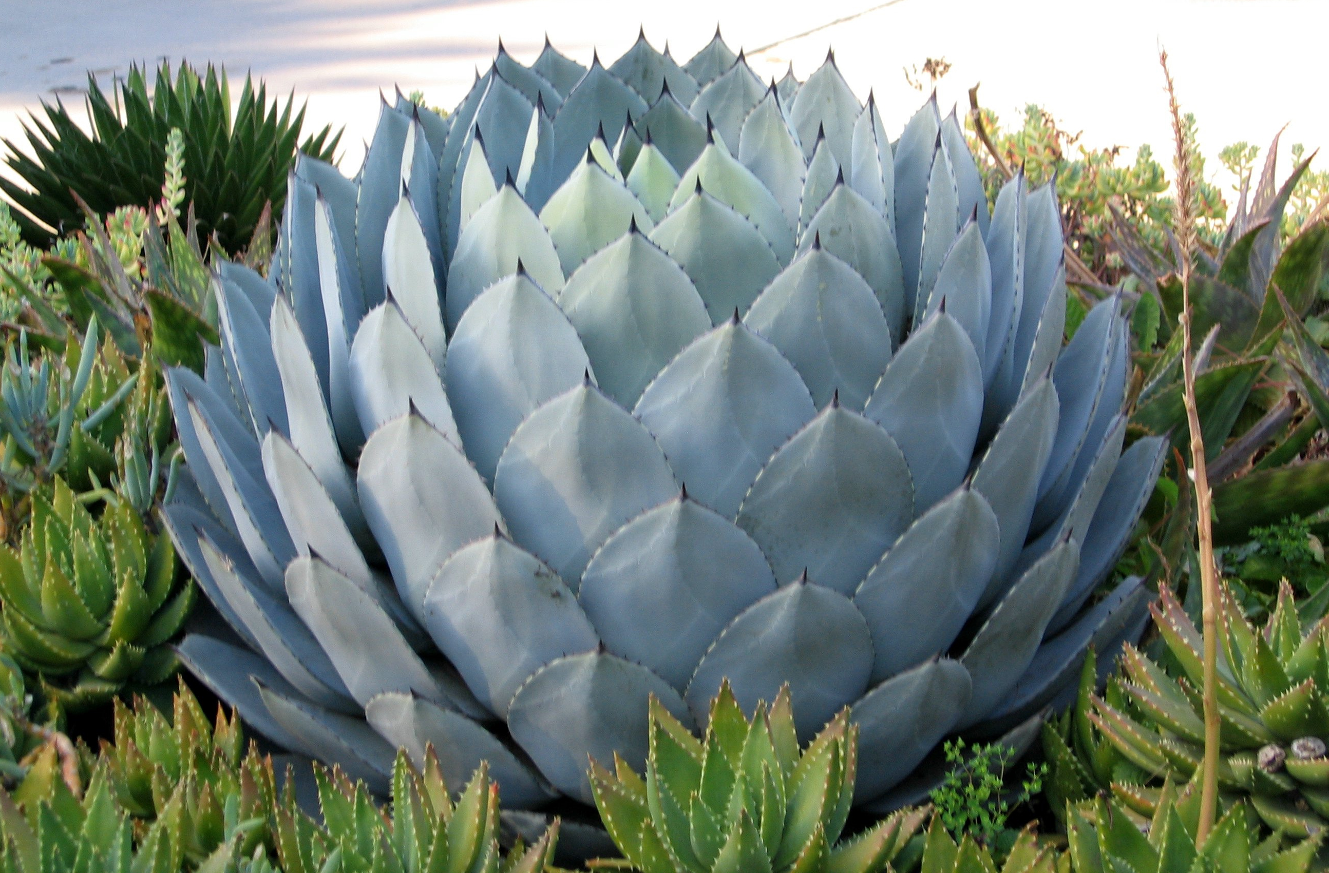 Agave parryi. Picture taken in a California garden.